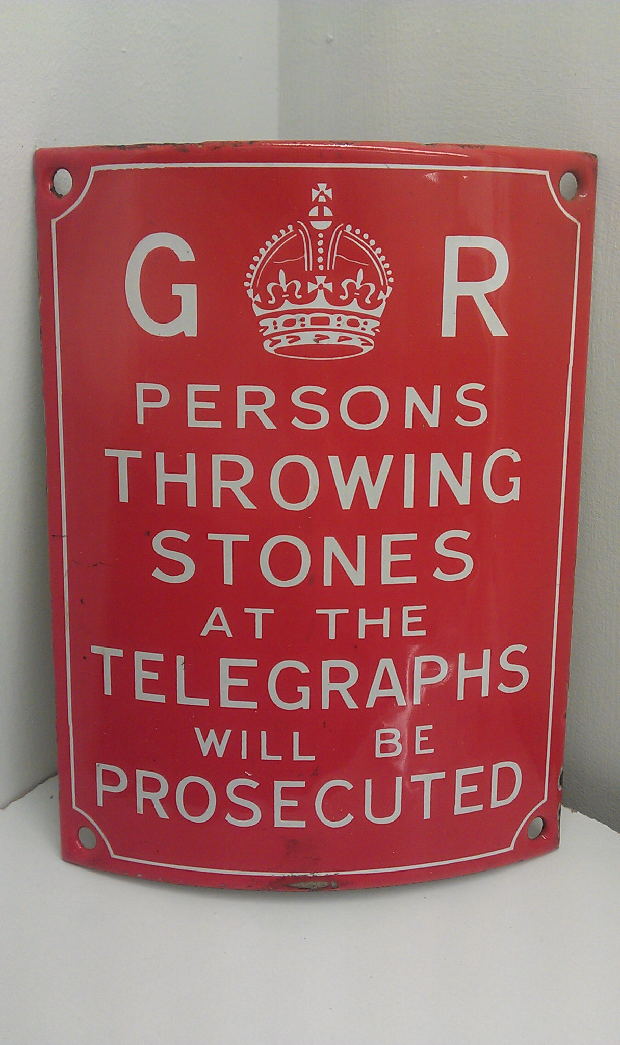 Enamel sign bearing the cypher of King George (which?) and reading "Persons throwing stones at the telegraphs will be prosecuted", in the collection of the Staffordshire County Museum and displayed at the Shire Hall, Stafford.